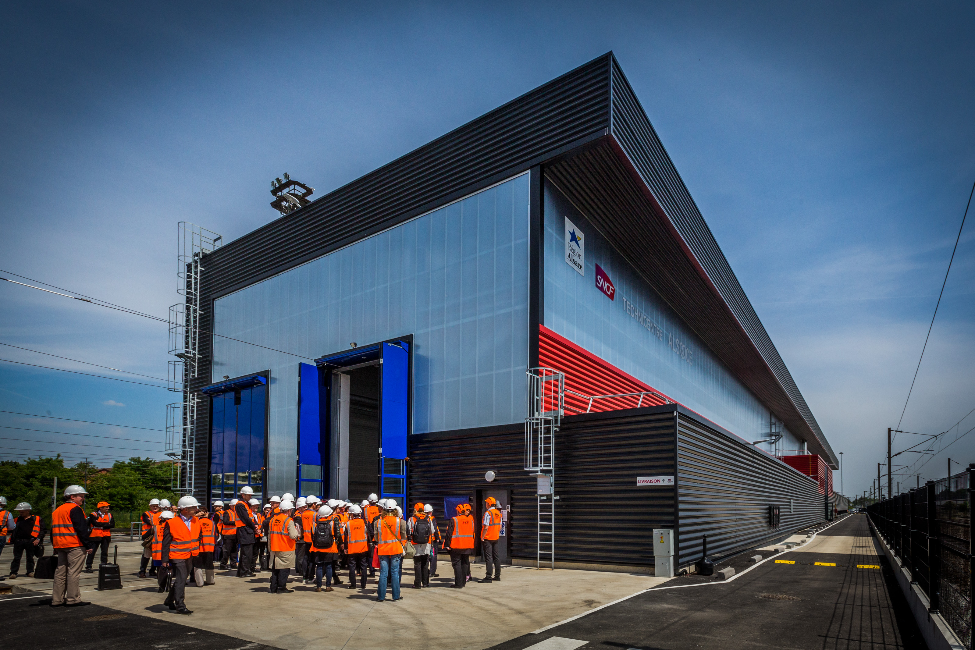 Technicentre TER Alsace Mulhouse Nord 28 mai 2015